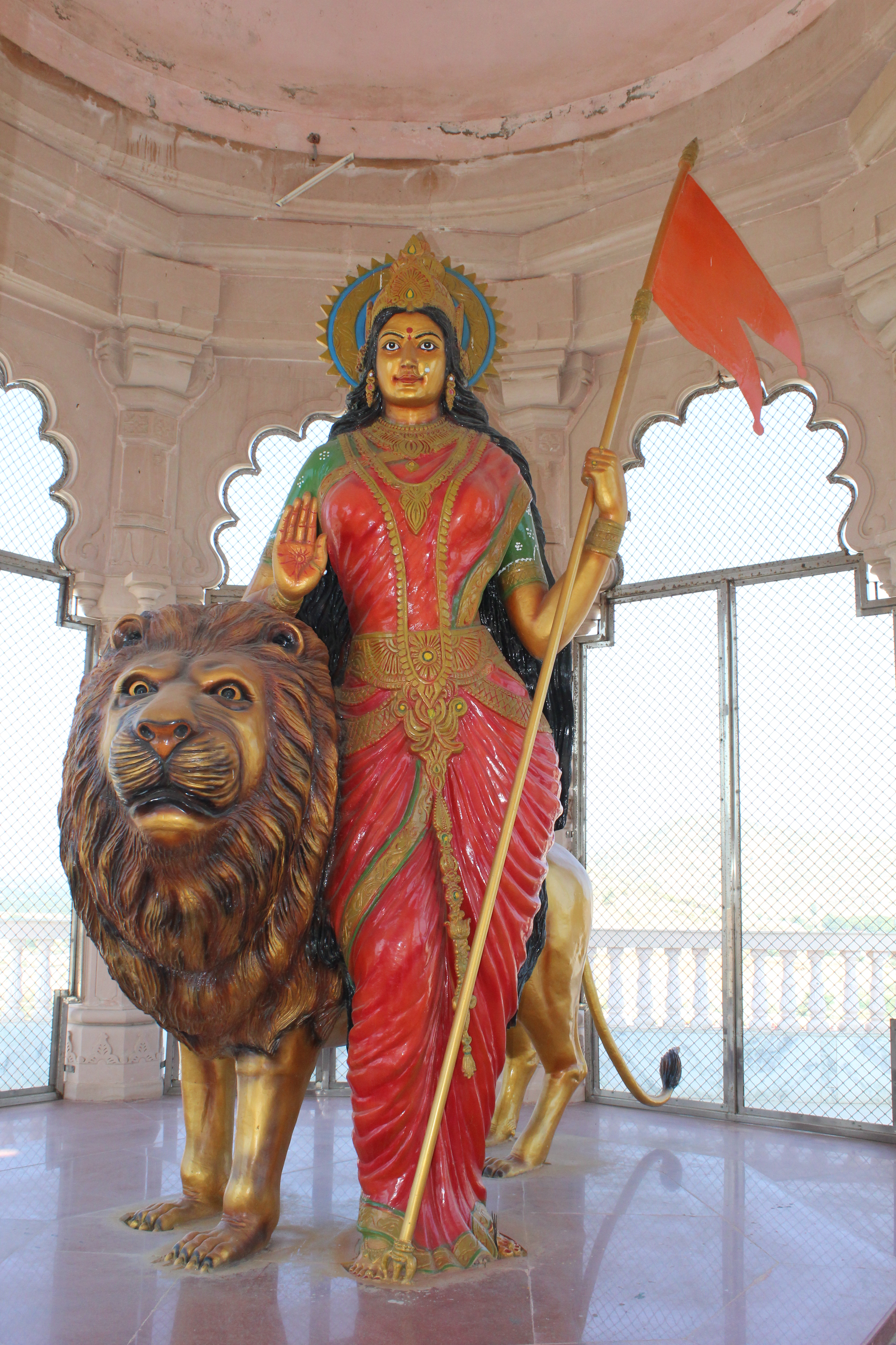 Bharat Mata Mandir in Pratap Gaurav Kenra Rashtriya Tirth